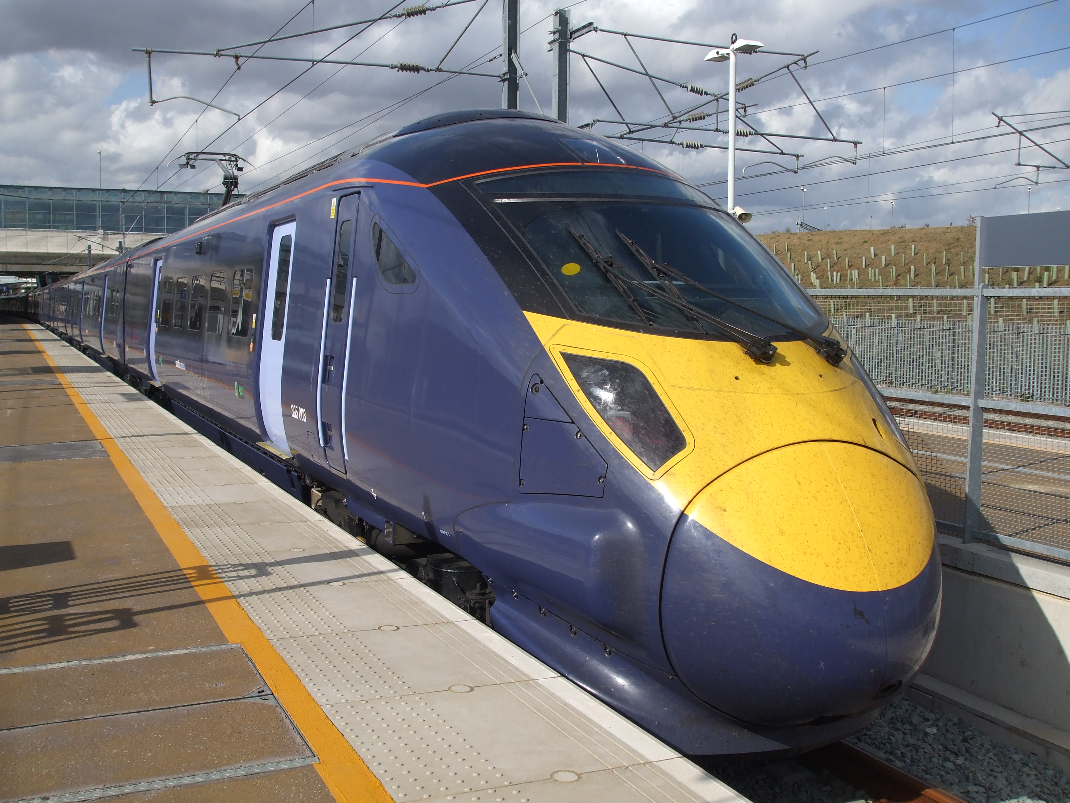 Class 395 "Javelin" operated by Southeastern at Ebbsfleet International. These trains are used on Southeastern's high speed services.